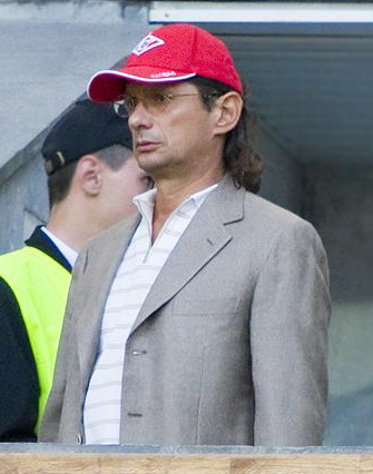 Leonid Fedun